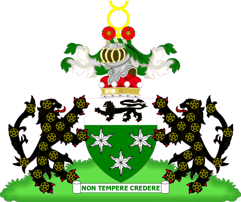 The armorial achievement of The Lord Adrian